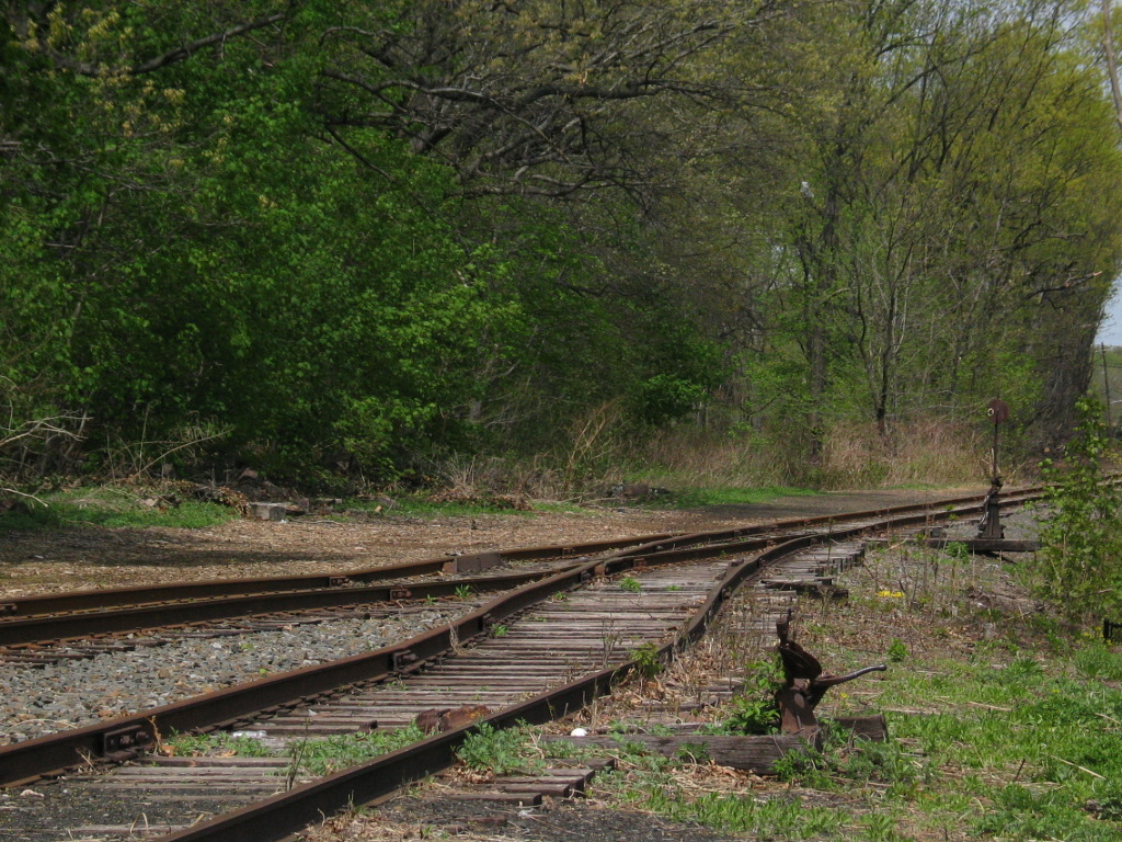 The closeup view of the abandoned switch at Nutley, NJ. Currently this switch branches to the abandoned track (on the right).